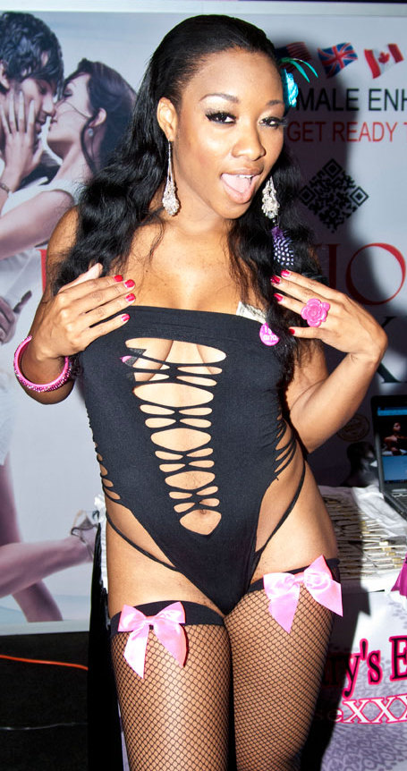 At Exxxotica Chicago known as the Largest Event Dedicated to Love and Sex at Donald E. Stephens Convention Center in Rosemont, IL, USA on July 7, 2012